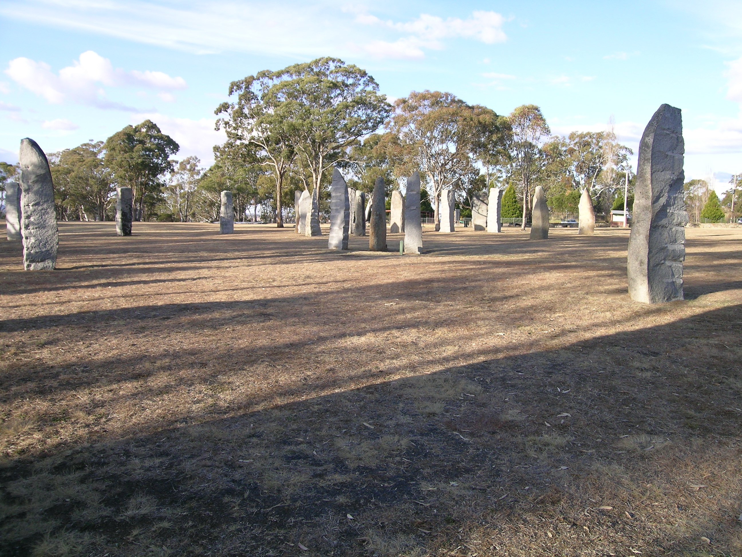 Standing Stones, Glen Innes, NSW. This erection has been modelled on the Ring of Brodgar in the Orkenys and has a circle of 24 stones representing the 24 hours of the day.